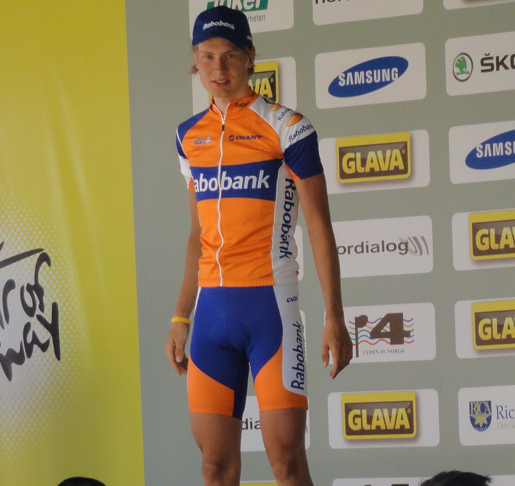 Kelderman during Tour of Norway 2011